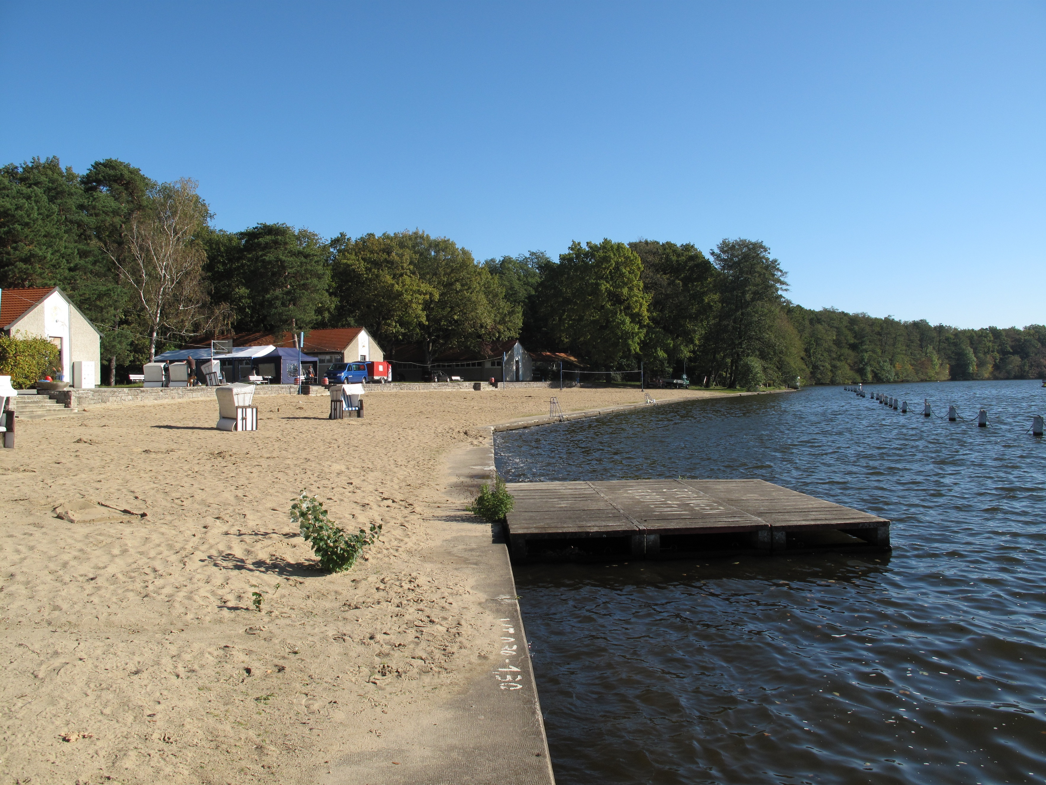 The Seebad Wendenschloss, also known as Strandbad Wendenschloss or Freibad Wendenschloss, is a public open air bath in the locality Köpenick in Berlins borough Treptow-Köpenick, Germany. It is situated in the location Wendenschloß in Berlins city forest at the northern bank of the Langer See (german for: long lake), which is passed by the river Dahme. The bath was opened in 1914/15.